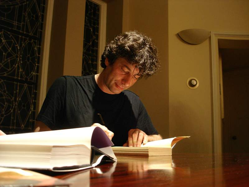 Neil Gaiman, signing books after a reading from "Anansi Boys" in Berkeley, 2005.